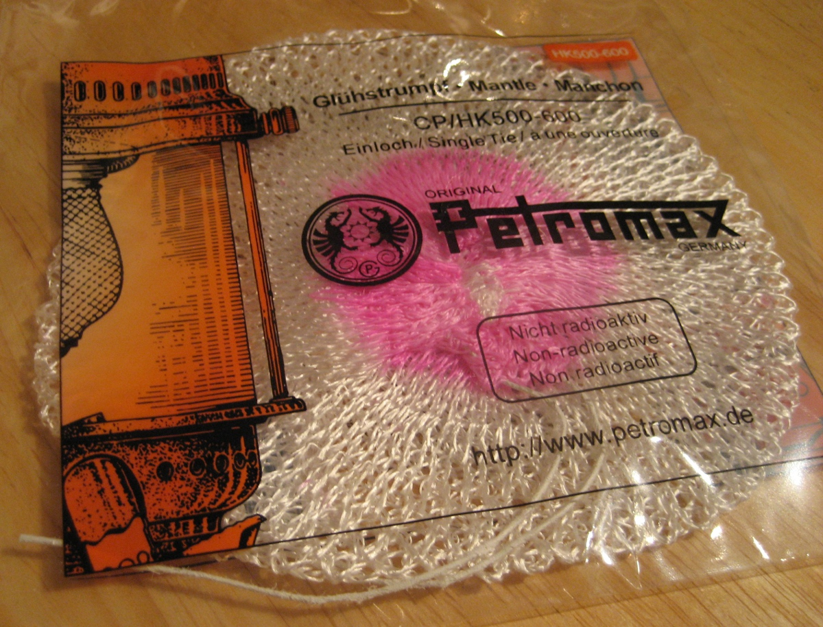 An unused Petromax Gas Mantle in its sale's package.